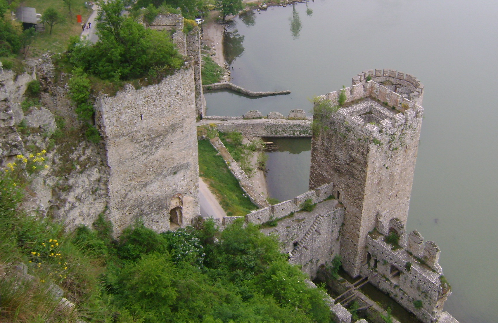 view from the top of the citadel